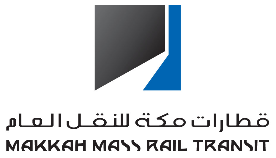 Logo for Mecca Metro, officially Makkah Mass Rail Transit.